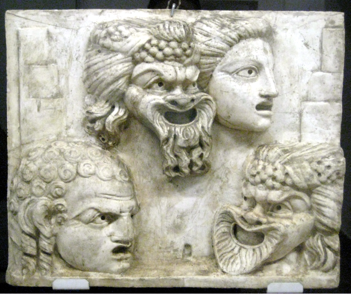 Relief with theatrical masks. Cast